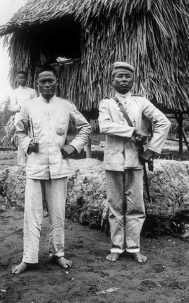 "Filipino officers, 1899". Cropped version of the original downloaded from the source below.